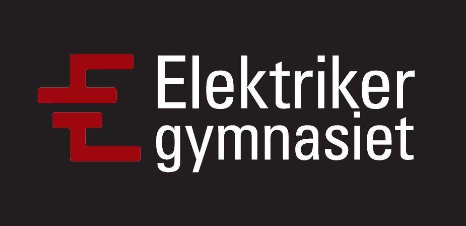 Elektrikergymnasiet